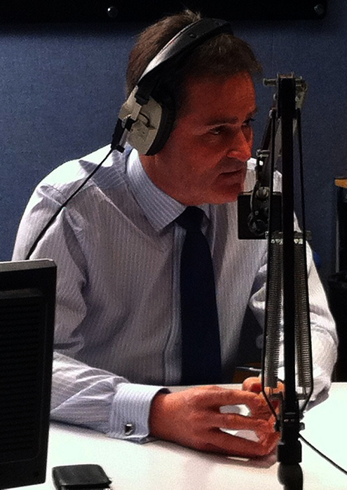 An image of Richard Keys in the Talksport studio